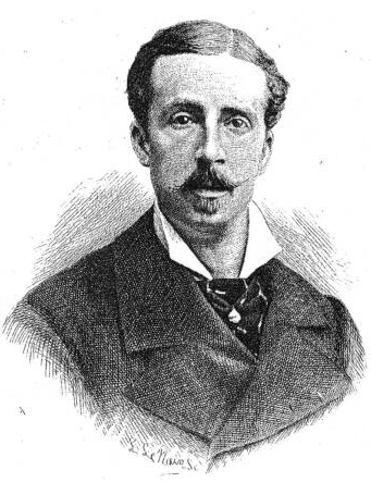 French writer, poet, playwright and nationalist Paul Déroulède (1846-1914)